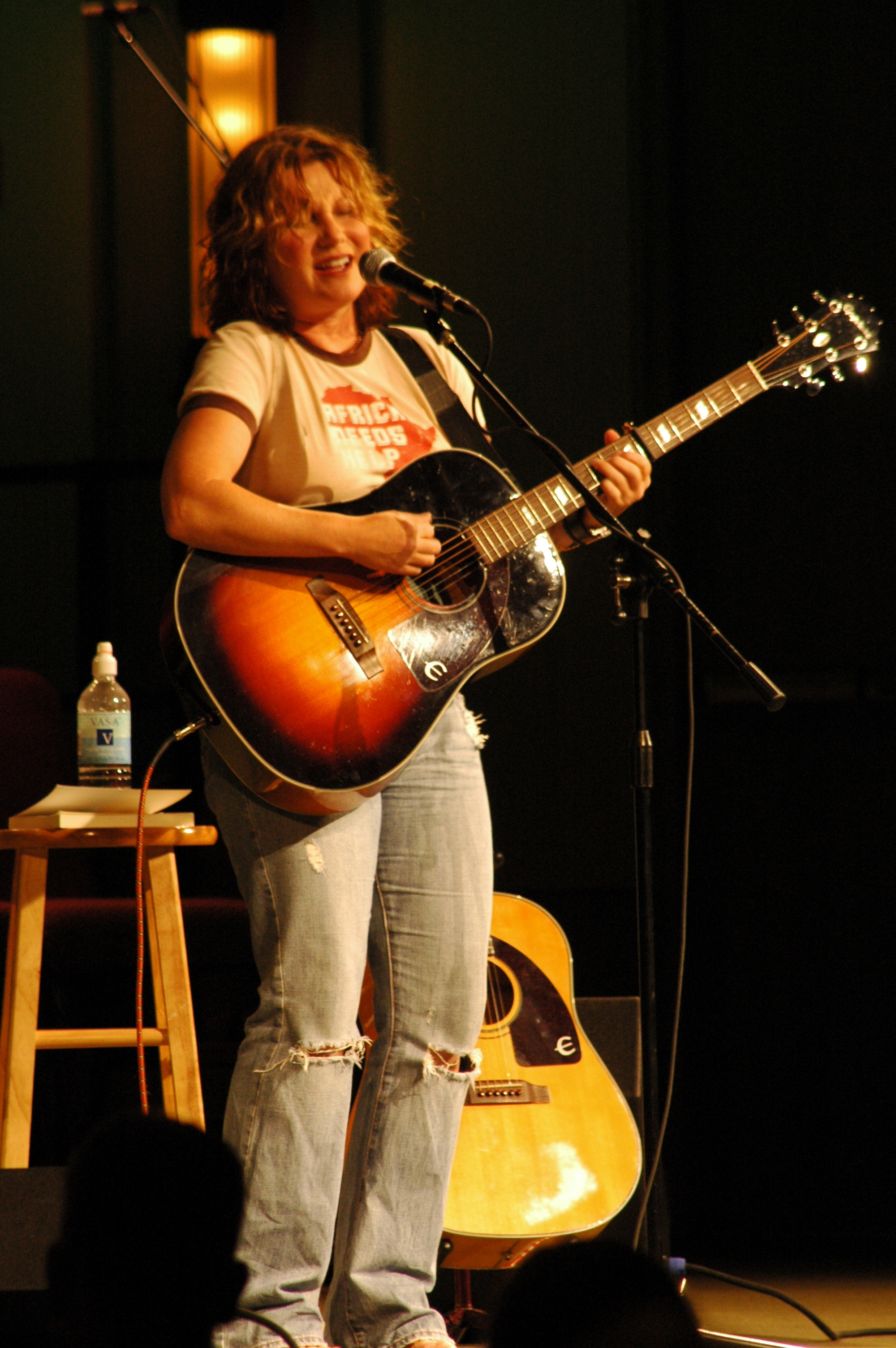 Concert at Palm Beach Baptist Church, June 24, 2006